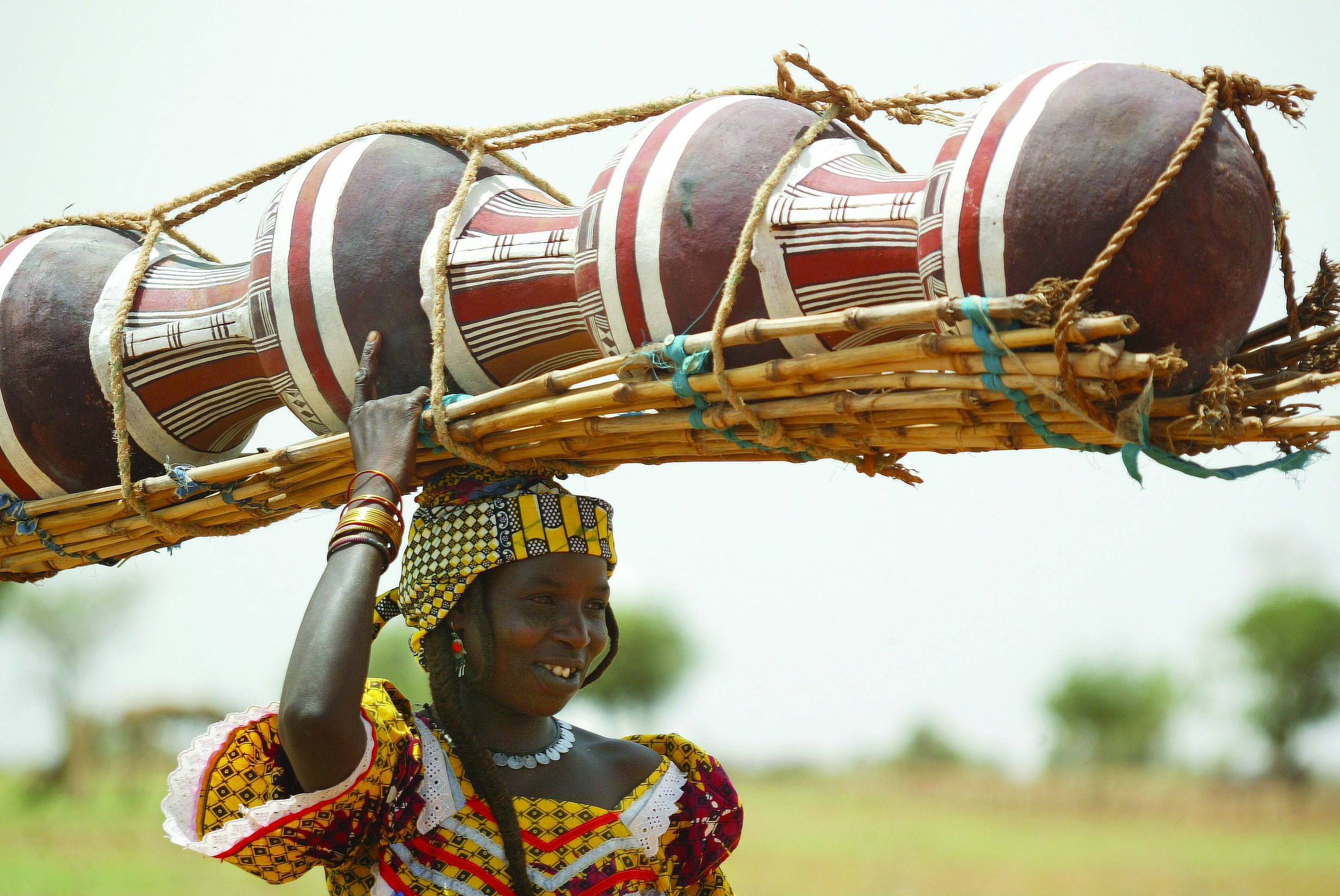 Woman carrying traditional water pots for sale in Niger. ILRI 2010 Calendar, caption Creating new options for household income. More livestock enterprises mean more opportunities for women.